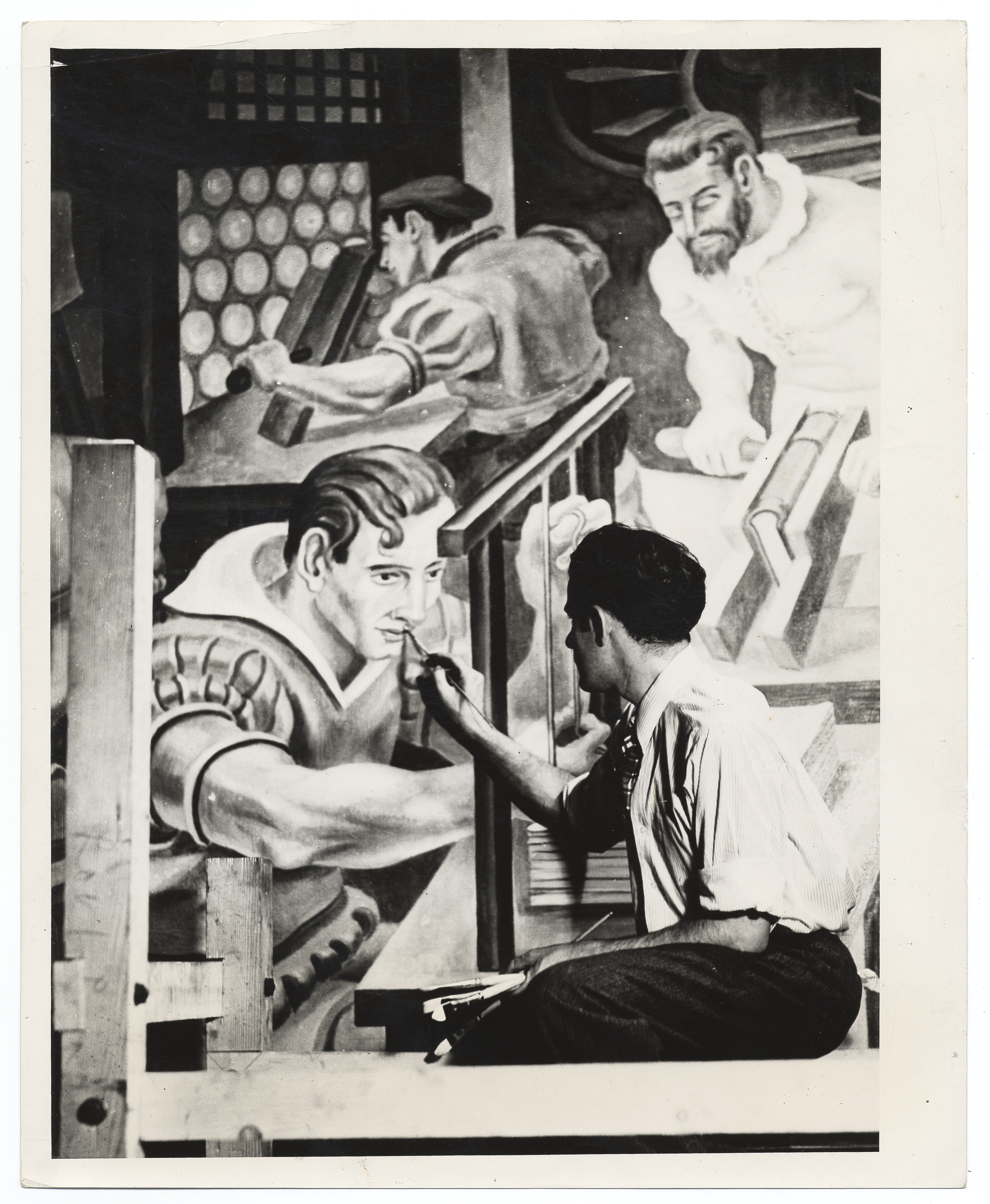 Goodman working on a mural for the Federal Art Project.Identification on verso (handwritten and stamped): W.P.A. Federal Art Project; 6 East 39th St., New York, N.Y. Negative No.: SF101; Title:"The Evolution of the Book" Artist: Bertram Goodman; Theodore Roosevelt High School Identification on accompanying label (typewritten): Photograph of Bertram Goodman (WPA - NYC artist) Bertram Goodman, WPA artist, putting the finishing touches on his mural "The Development of Printing", at Theodore Roosevelt High School (Washington Ave. and Fordham Rd., Bronx, NY). The figure on which he is working is that of an early bookbinder, drawing threads through a book. It is the central figure in the foreground of the panel. The mural has been executed under the supervision of the Federal Art Project of the WPA.